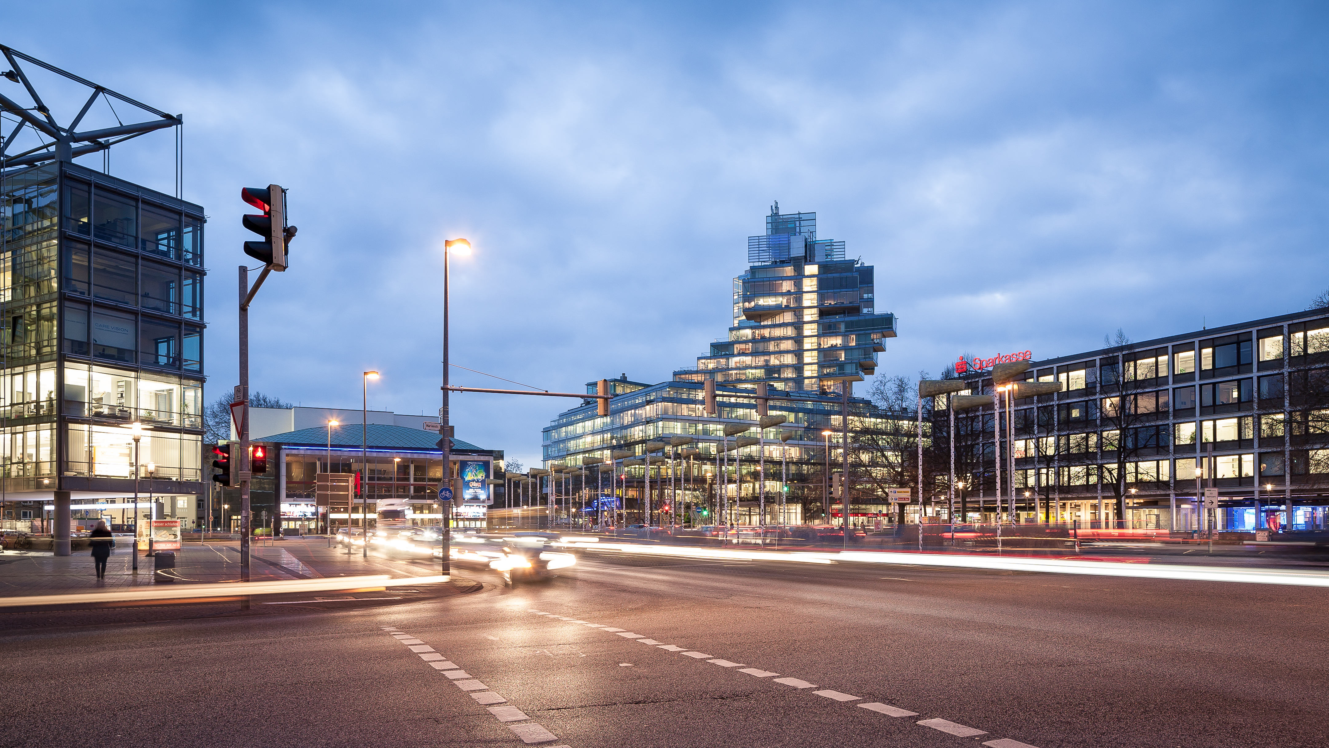 Aegidientor square ("Aegidientorplatz") in Hanover, Germany. View in southerly direction.